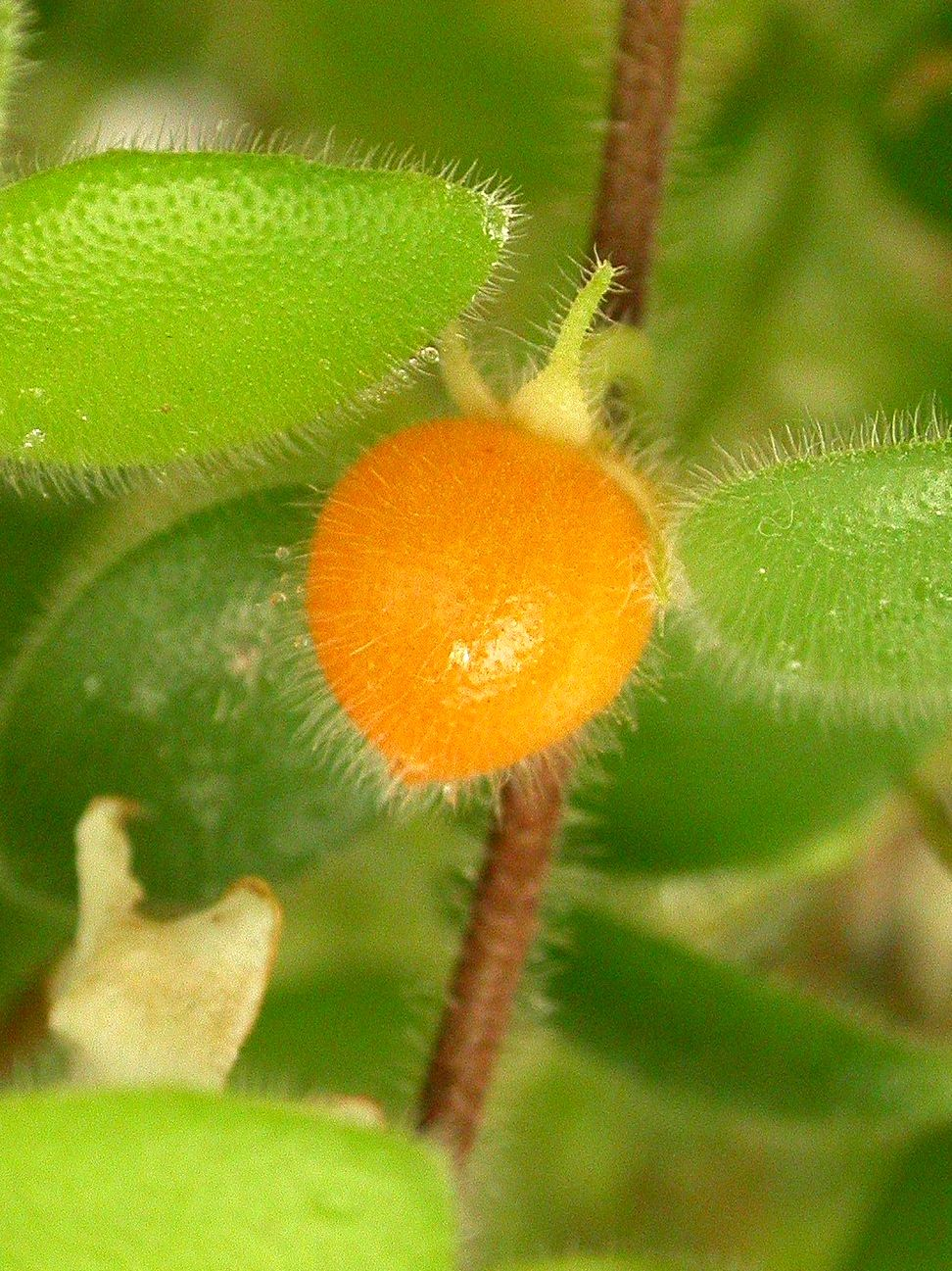 Fruit of Codonanthe devosiana, Teplice Botanical Garden, Czech Republic